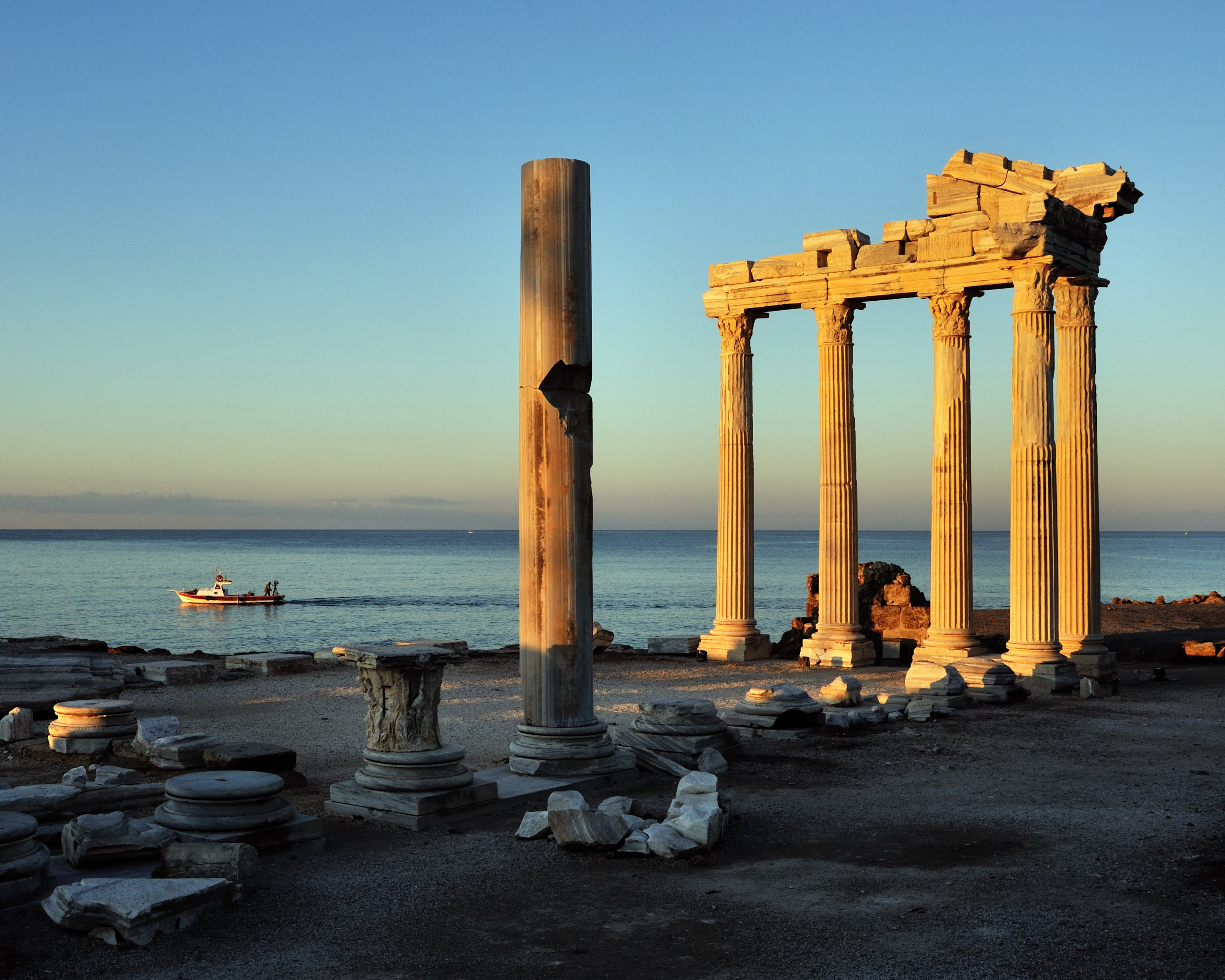 The ruins of the Temple of Apollo at Side, Antalya, Turkey